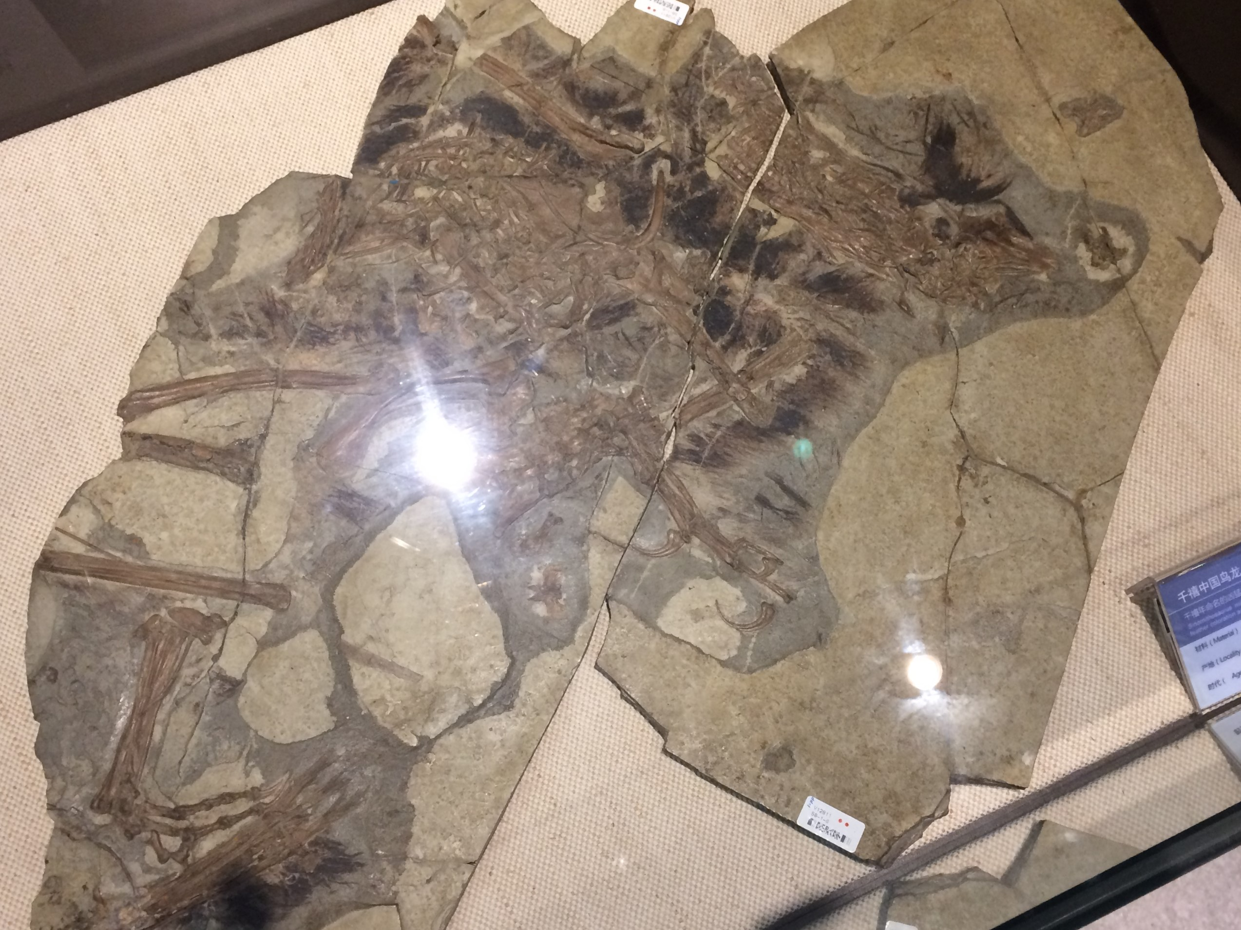 Sinornithosaurus millenii holotype at Paleozoological Museum of China.